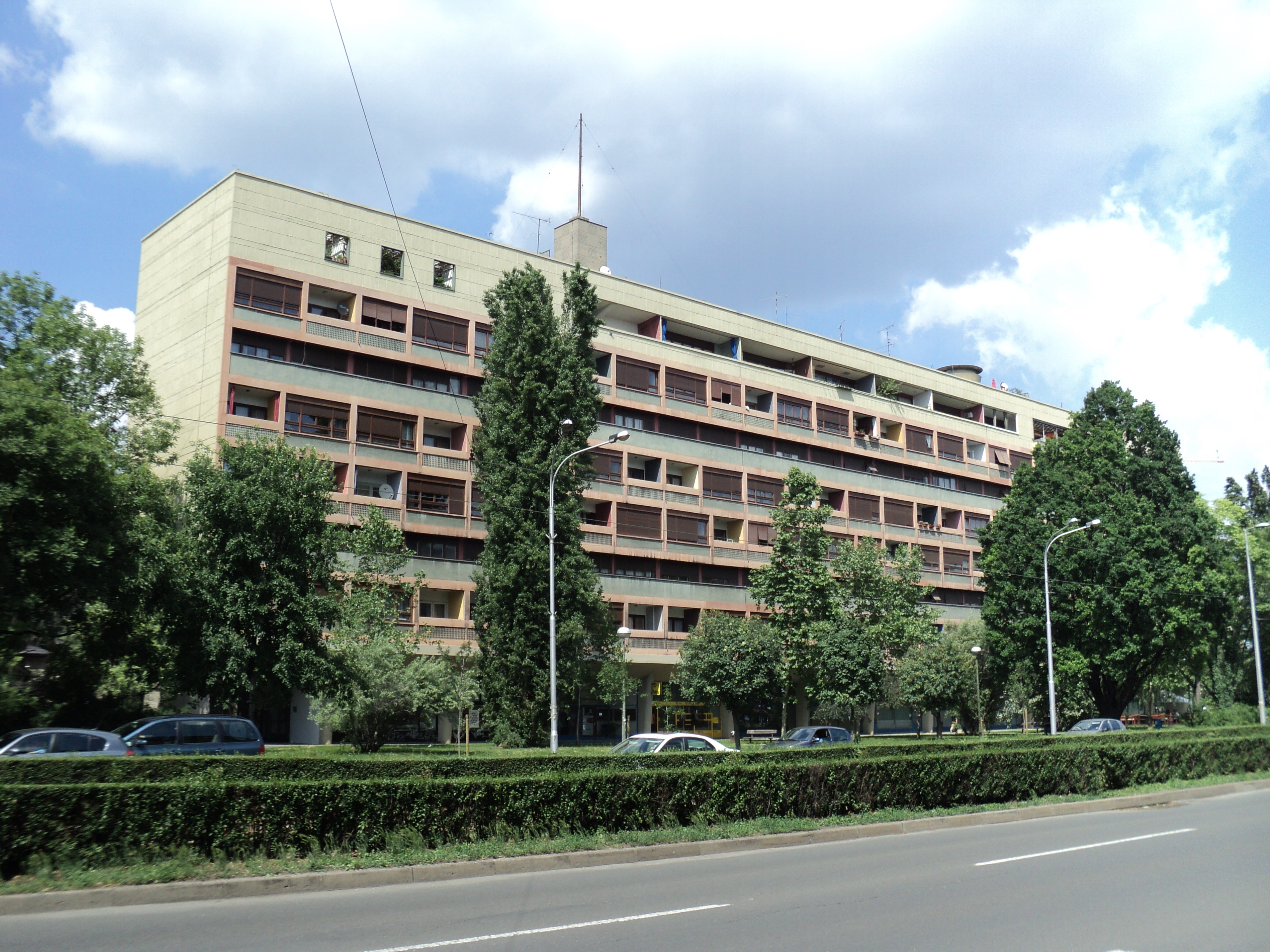 Building in Vukovarska street, Zagreb. Designed by Drago Galić, built in 1953.